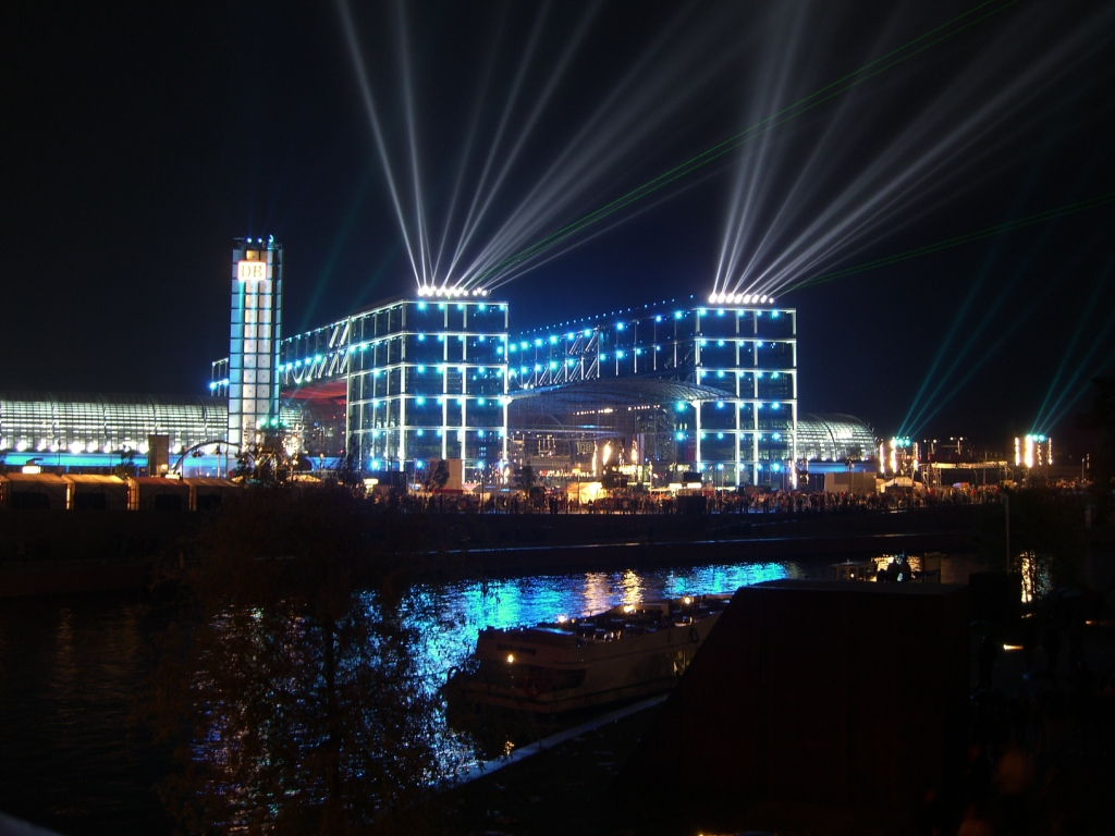 Opening of the Berlin central station